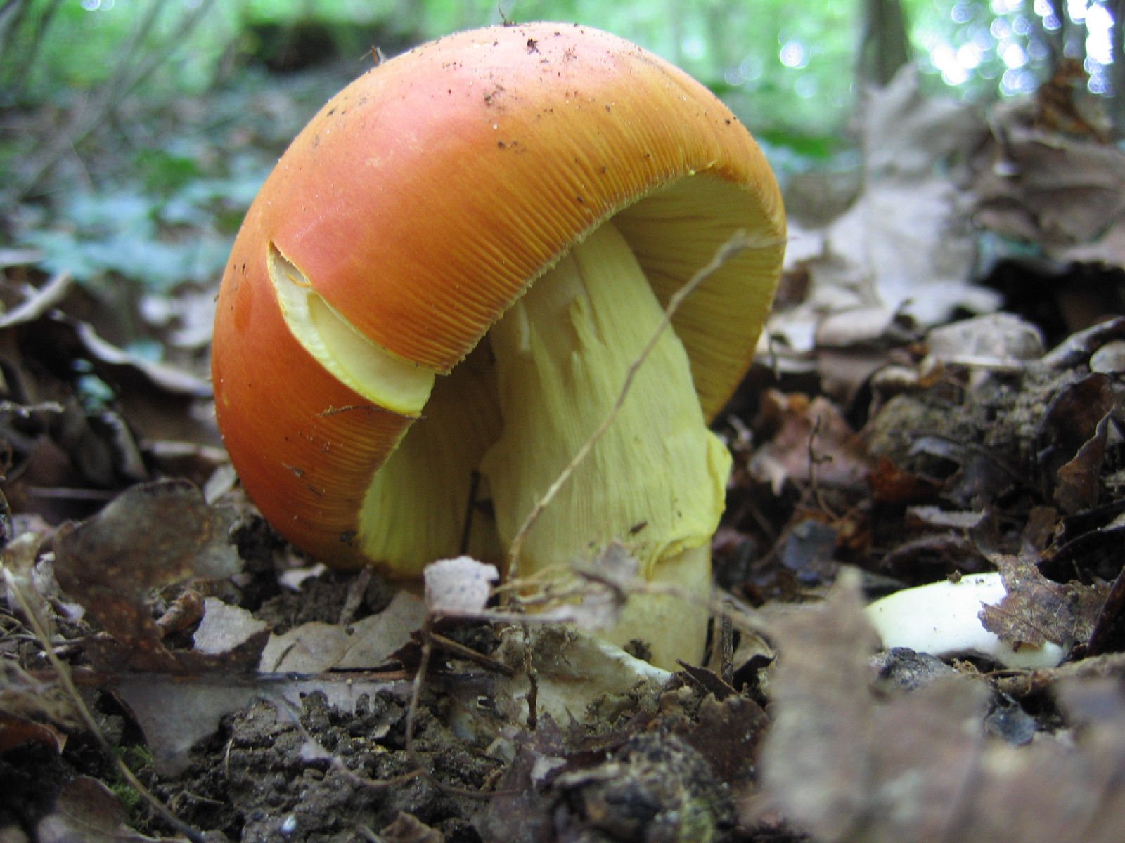 Amanite Oronge